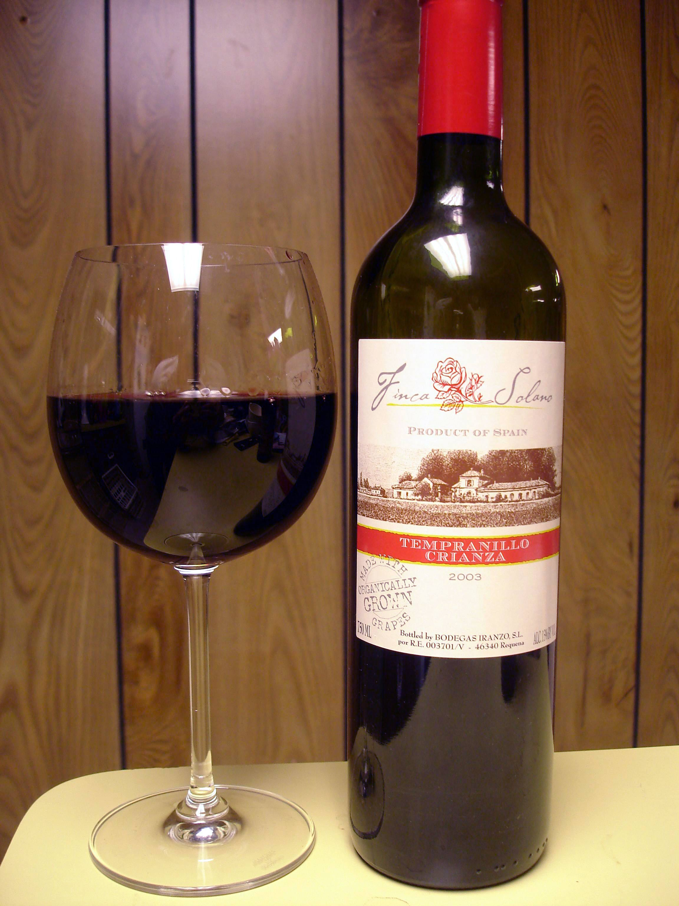 Spanish Tempranillo wine organically grown grapes